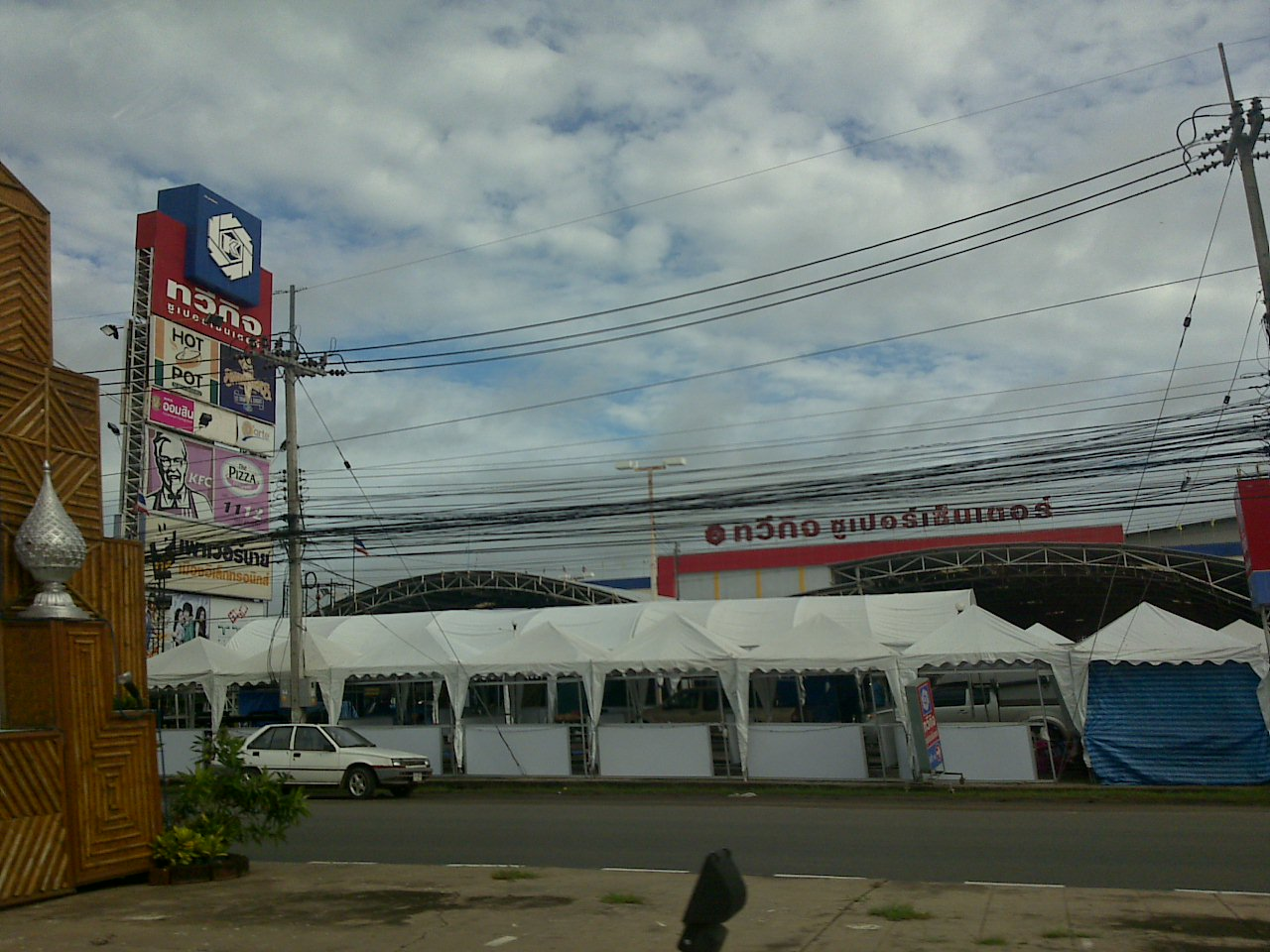 Taweekit Supercenter, Buriram